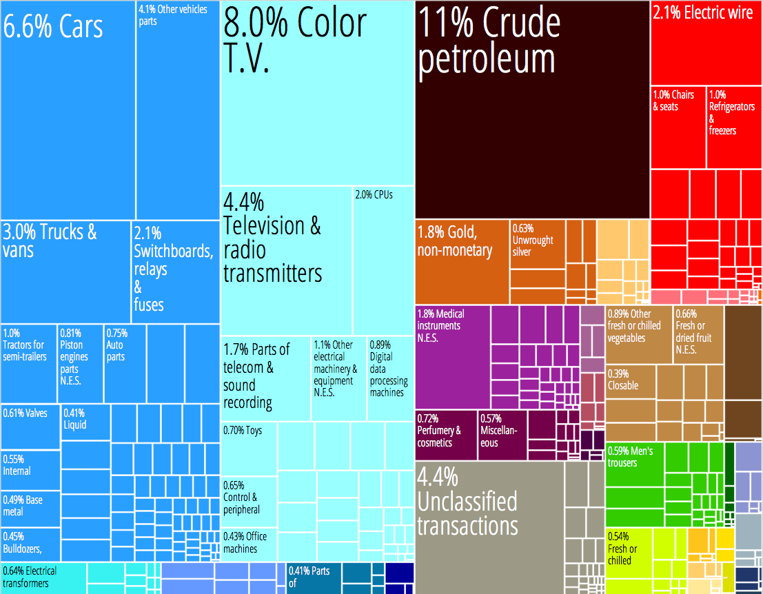 Graphical depiction of the country's product exports in 28 color coded categories. Each colored box represents one product and its size is proportional to the share of the country's total exports that the product represents.